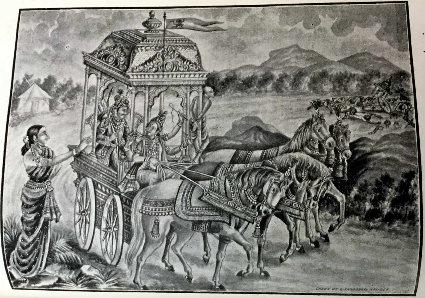 FOLLOWING ARE THE PICTURES FROM A 100 YEAR OLD BOOK OF BHAGAVATA PURANA. THESE PICTURES COVER FIRST TWO BOOKS; BHAGAVATA HAS 12 BOOKS